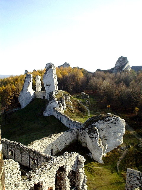 Ogrodzieniec - castle - view from tower